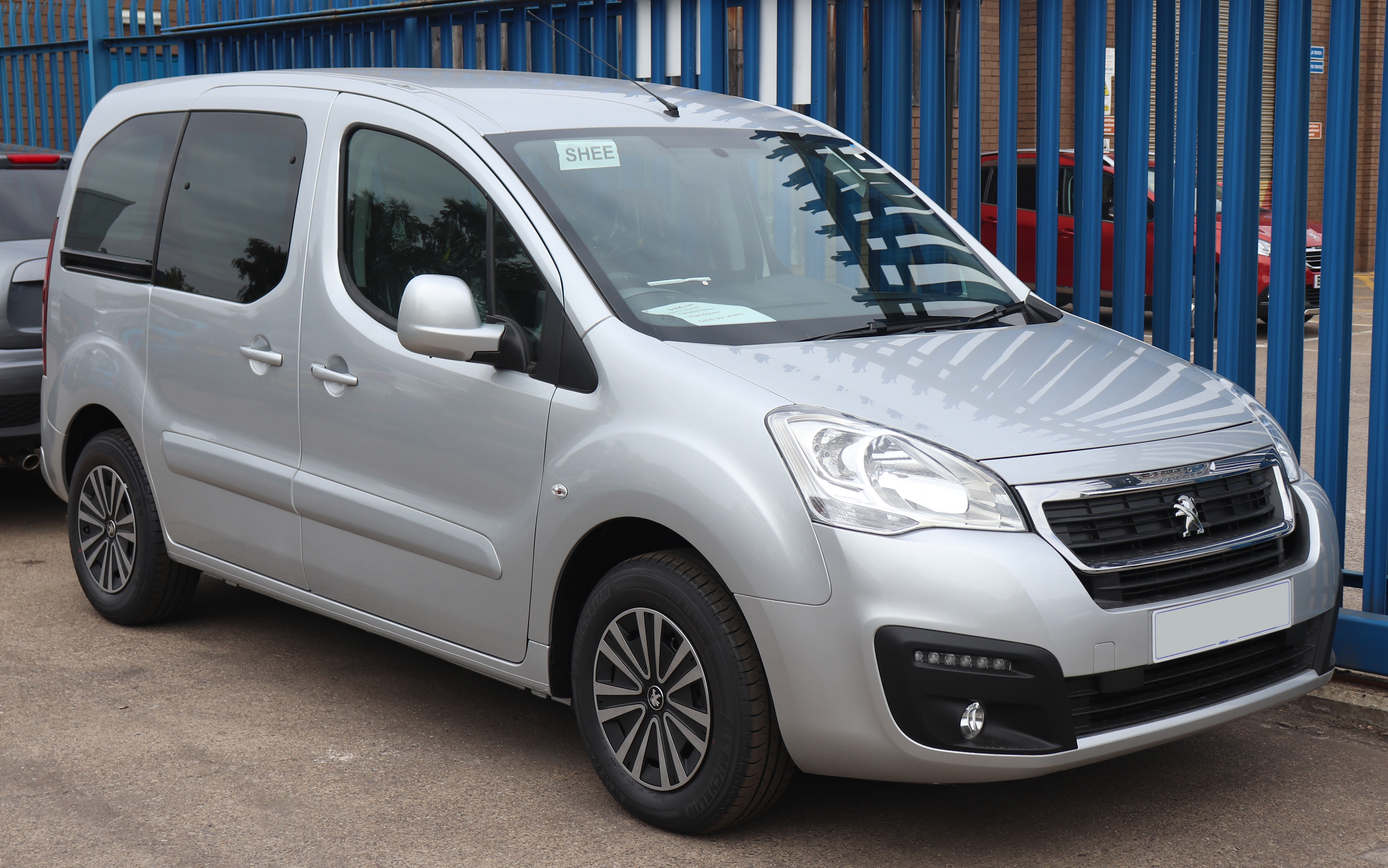 2018 Peugeot Partner Tepee Active (Late 68 Reg) Front Taken in Leamington Spa